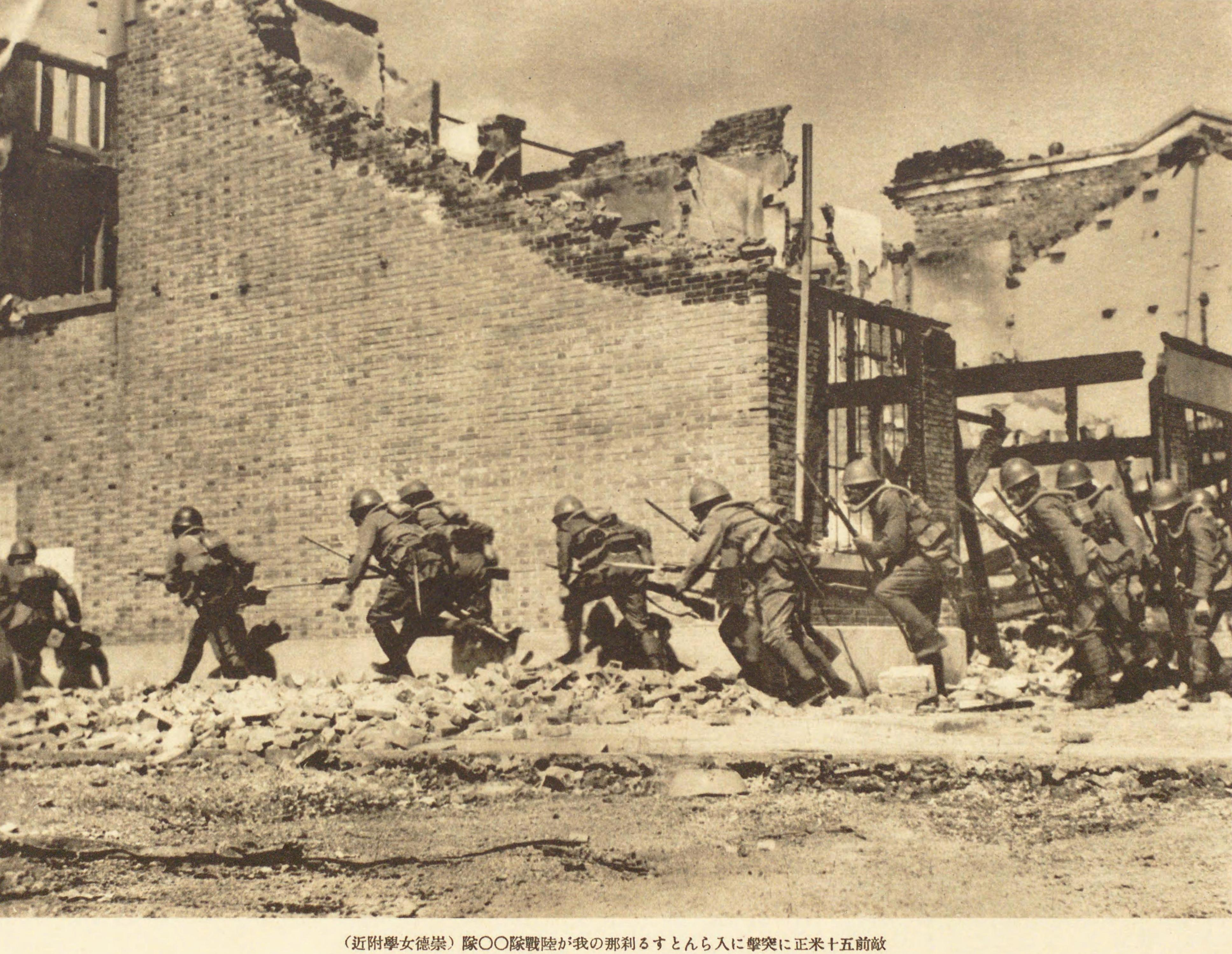 Shanghai Special Naval Landing Force assaulting near Ch'ung-te School for Girls, Barchet Road